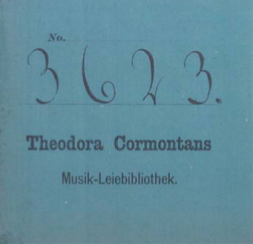 This file is from the book "MUSIKKHANDEL I NORGE FRA BEGYNNELSEN TIL 1909" (Music Publishing in Norway from the Beginning Until 1909) by Kari Michelsen. The author scanned the image from a document printed in 1879, held in the archives of the Aust-Agder kulturhistoriske senter in Arendal, Norway.